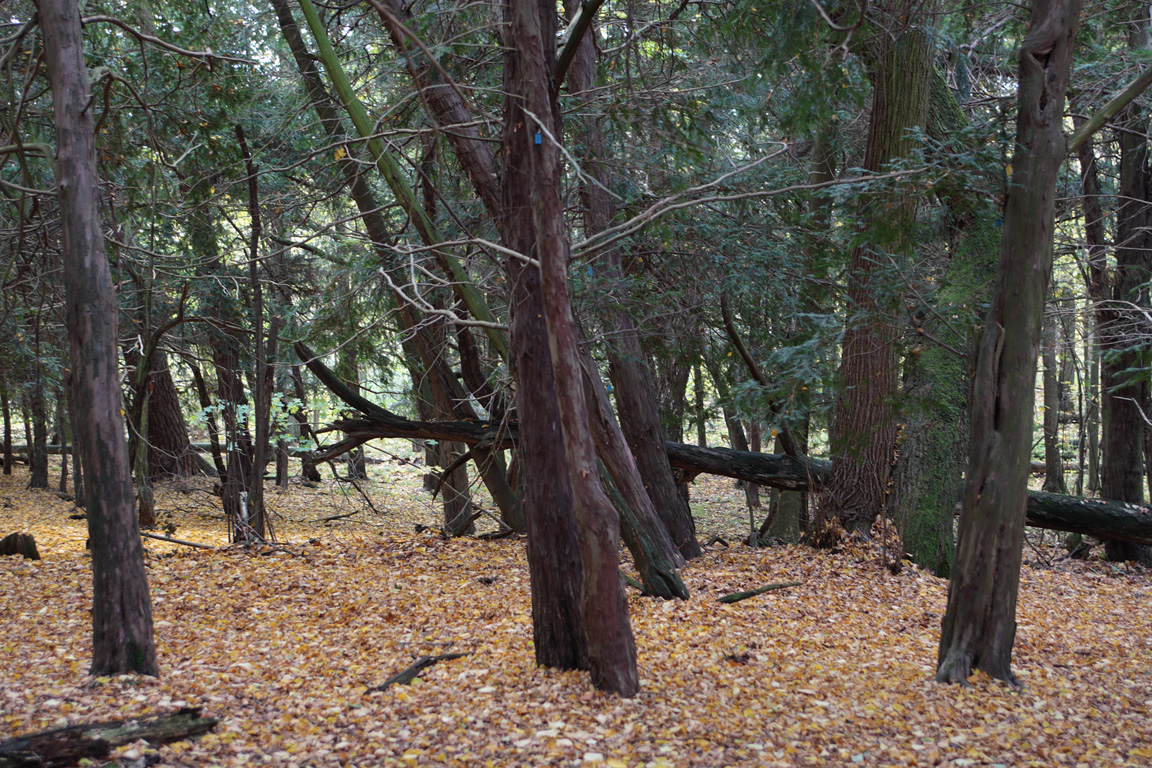 Taxus baccata (European Yew), Poland - Nature reserve "Cisy Staropolskie"